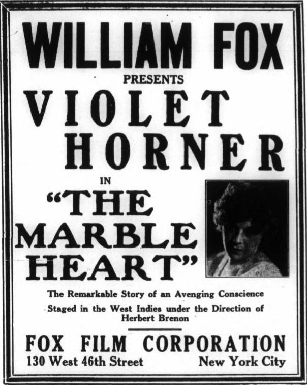 Advertisement for the American drama film The Marble Heart (1916) with Violet Horner (1892 – 1970), on page 21 of the March 3, 1916 Variety.